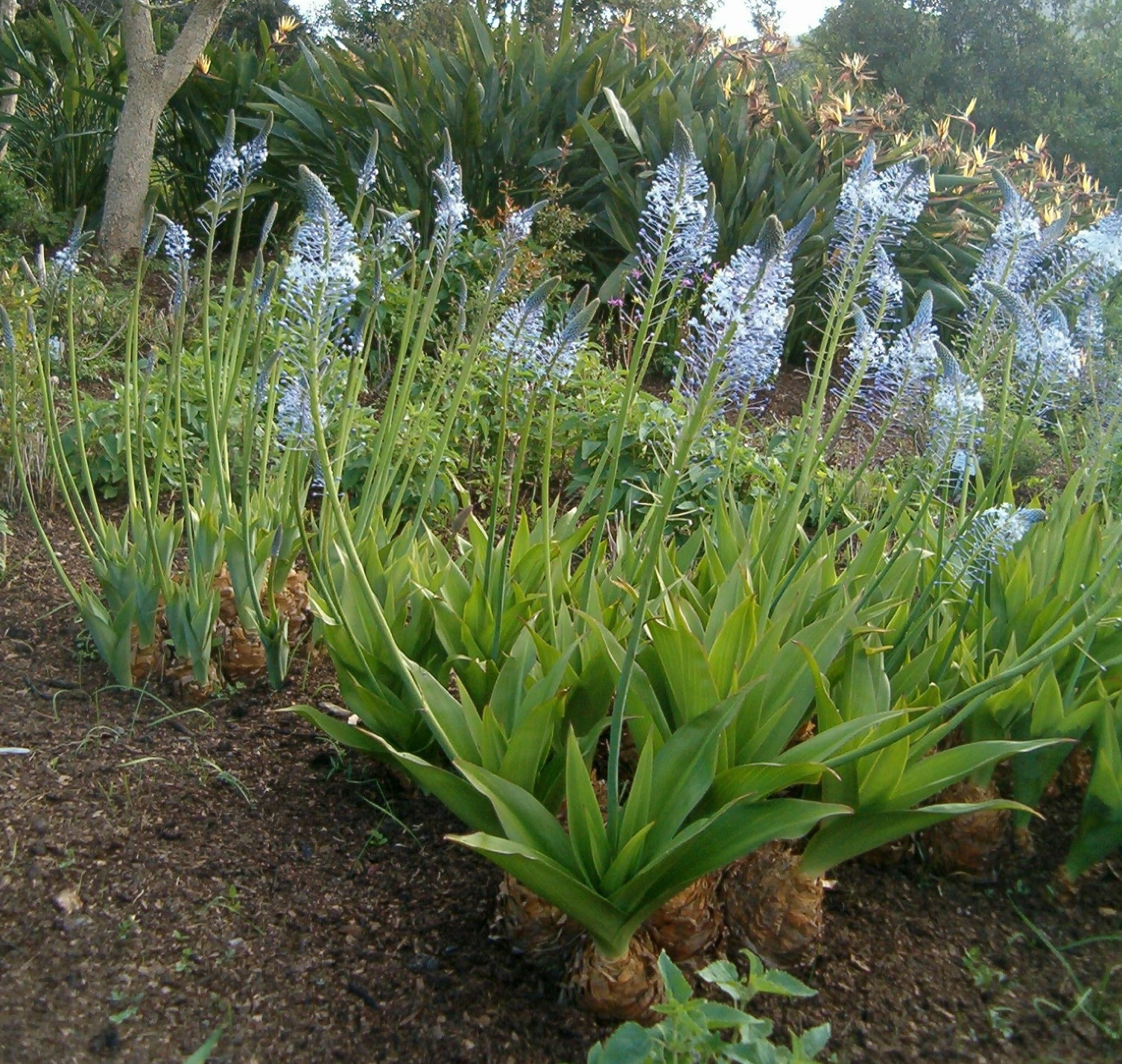 At Kirstenbosch National Botanical Gardens Species Merwilla plumbea